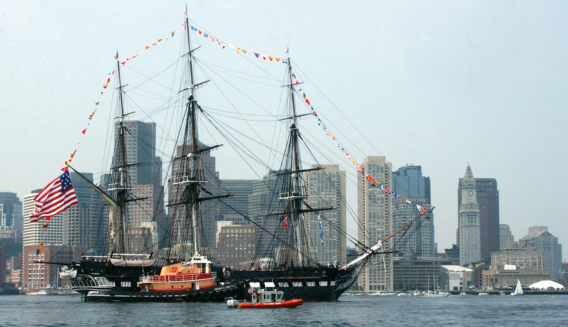 050611-C-4938N-330 Boston, Mass. (June 11, 2005) - A U.S. Coast Guard patrol boat escorts USS Constitution, "Old Ironsides", out to Island Castle Hill in Boston Harbor prior to firing a 21-gun salute. This event offically starts Navy Week Boston. Twenty such weeks are planned this year in cities throughout the U.S., arranged by the Navy Office of Community Outreach (NAVCO). NAVCO is a new unit tasked with enhancing the Navy's brand image in areas with limited exposure to the Navy. U.S. Coast Guard photo by Public Affairs Specialist 3rd Class Kelly Newlin (RELEASED)